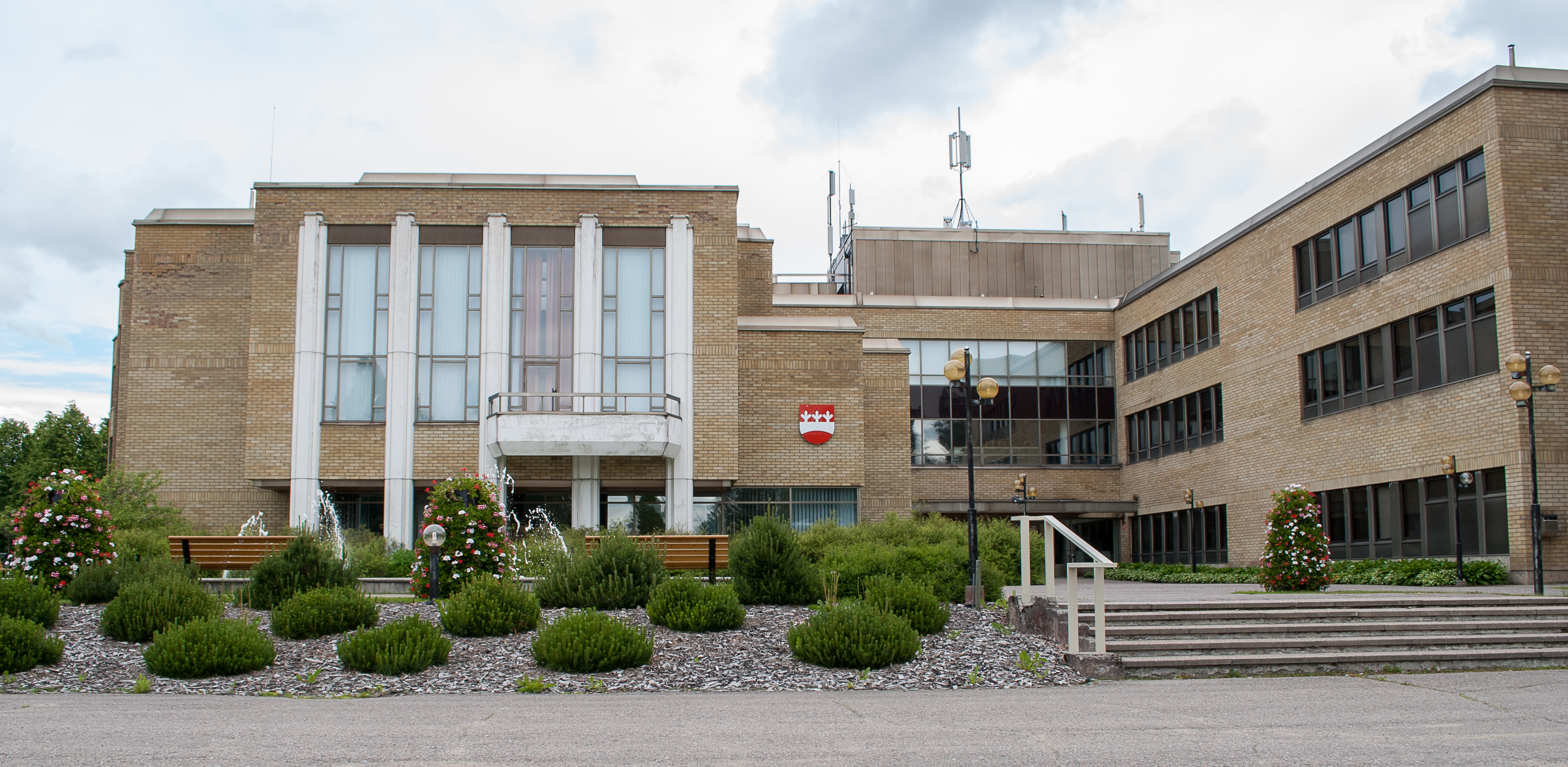 City Hall of Mänttä-Vilppula